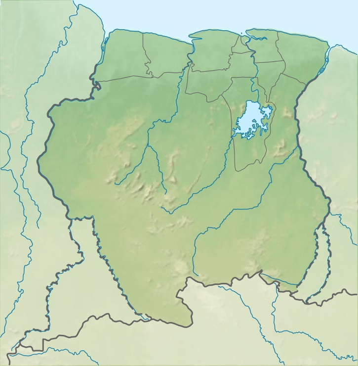 Location map of Suriname Equirectangular projection. Geographic limits of the map: N: 6.4° N S: 1.3° N W: 58.6° W E: 53.6° W